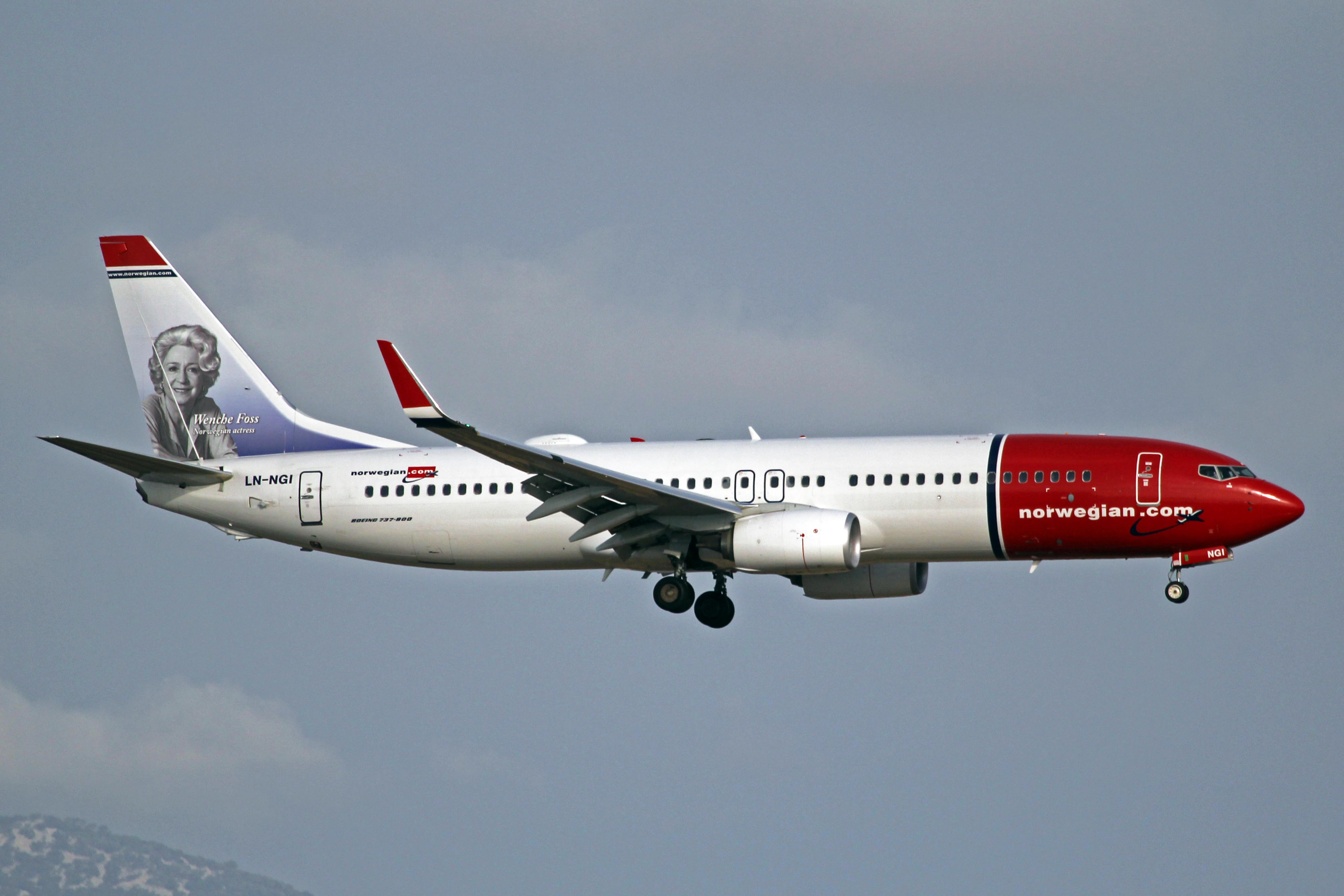 'Wenche Foss - Norwegian Actress' tail c/scheme.